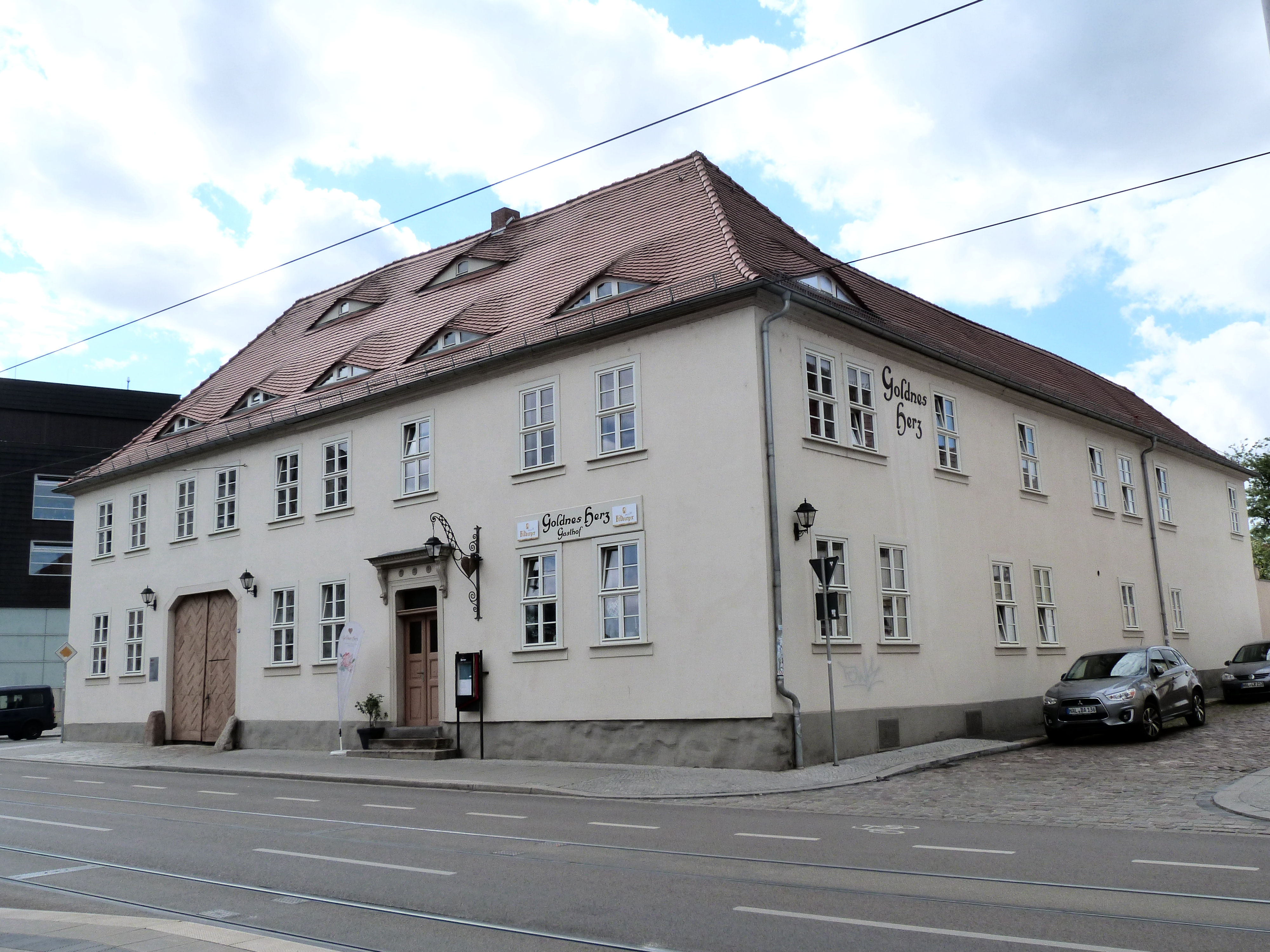 House No. 57, Mansfelder Strasse, Halle (Saale), inn Goldnes Herz (Golden heart), built in in the 18th century